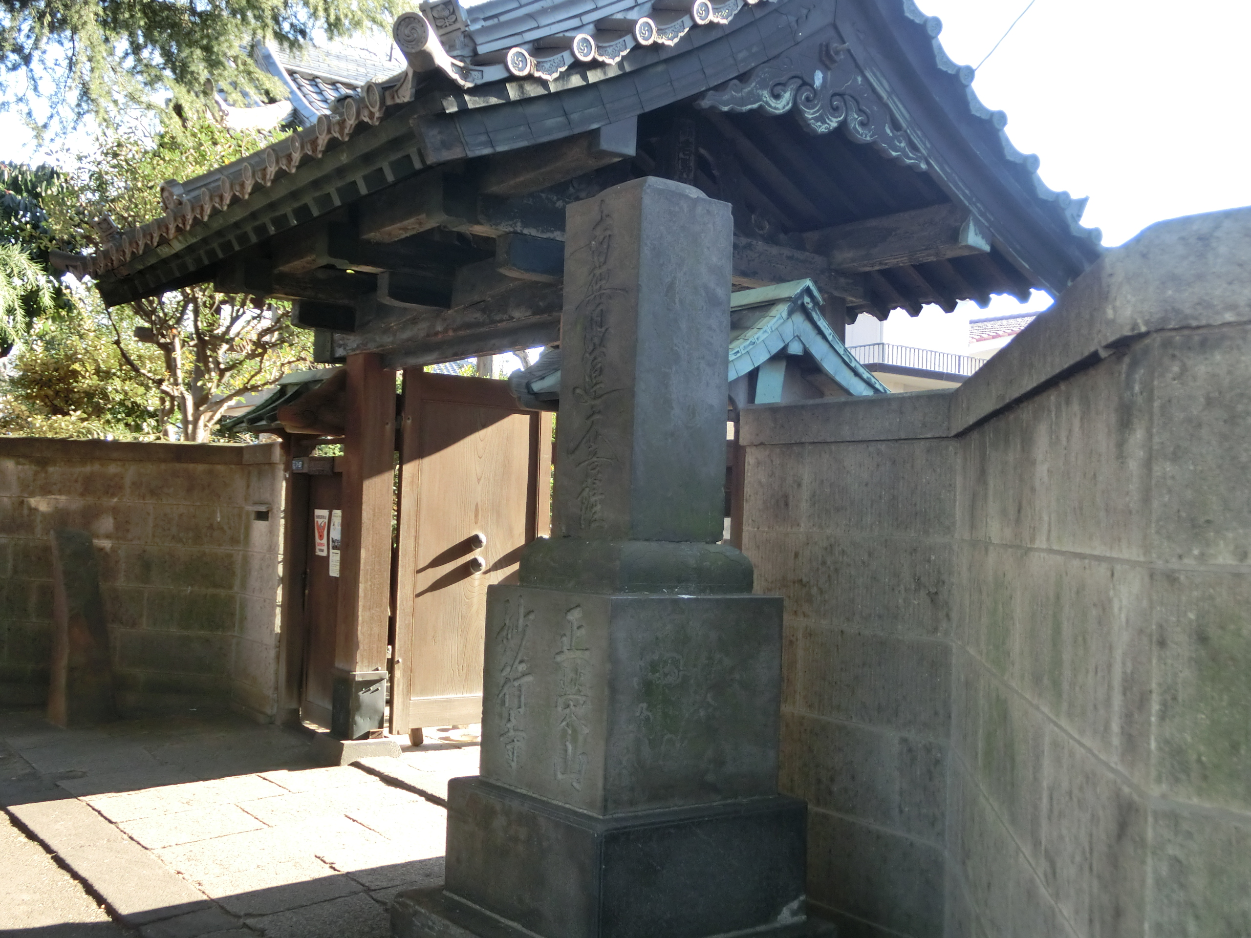 Myogyo-ji (Taito)